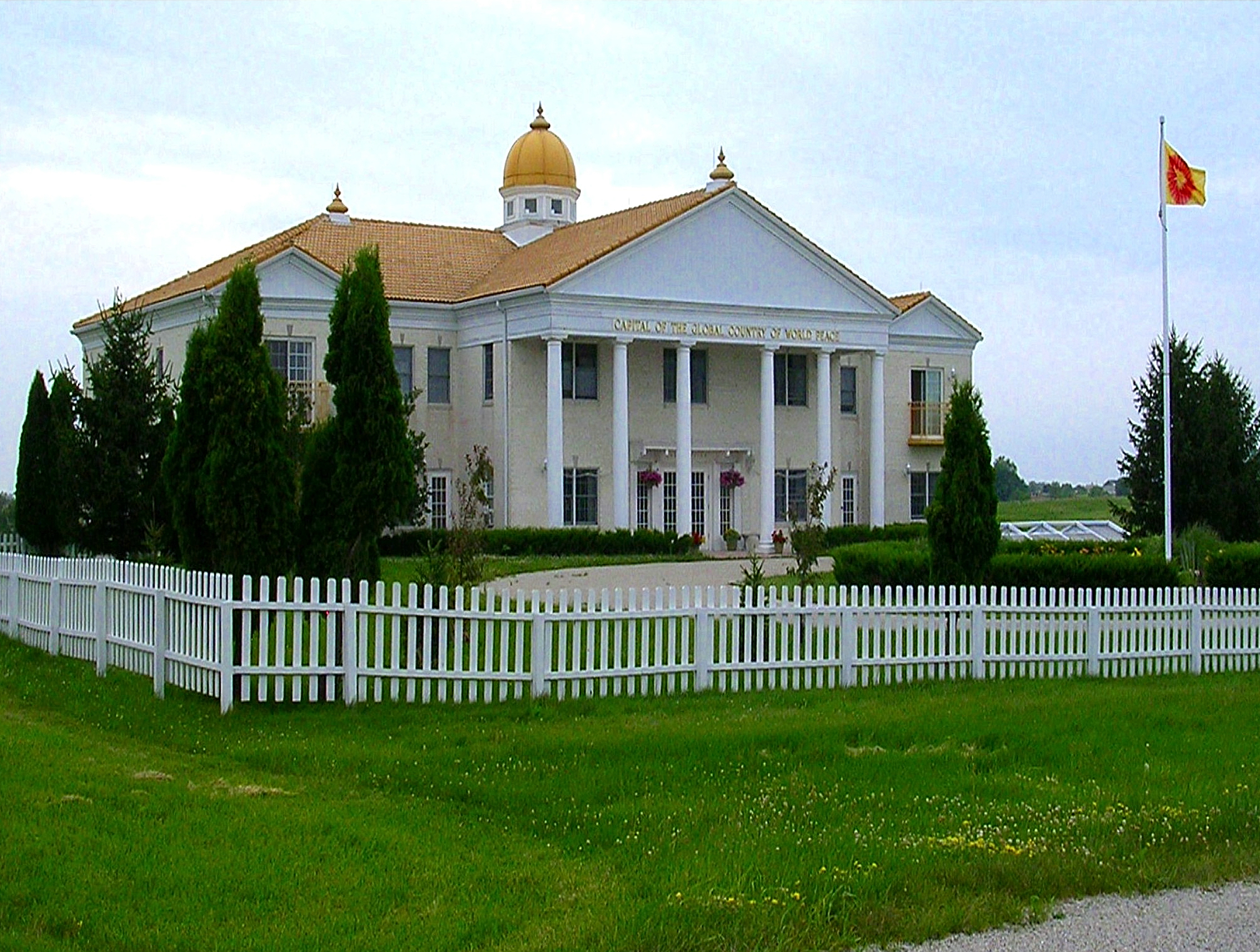 "the mansion" which serves as the headquarters for the Global Country of World Peace in Maharishi Vedic City, IA.